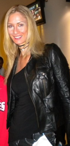 CarolynMoos, mexico